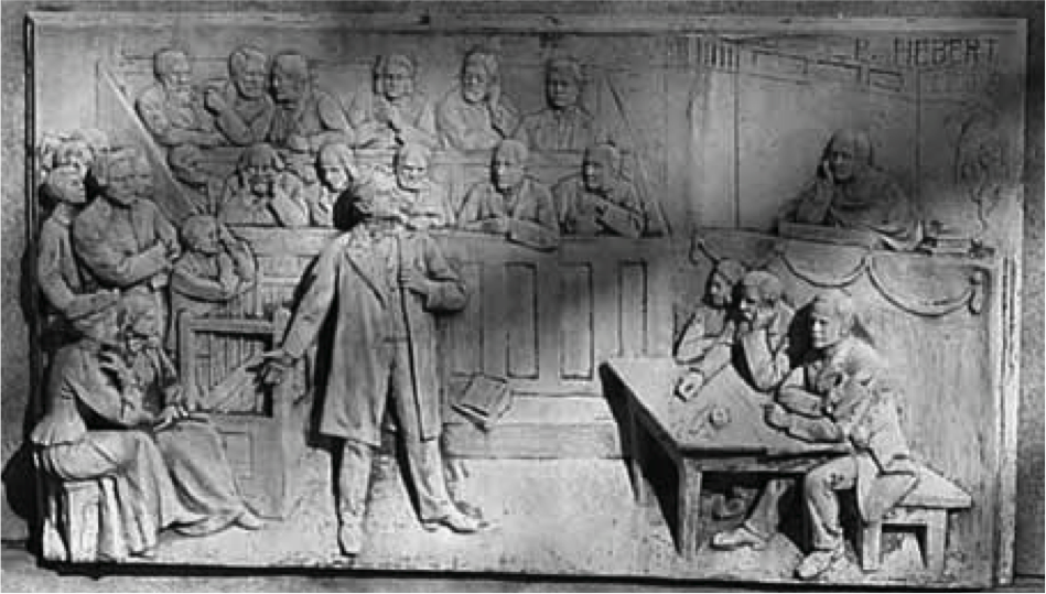 Joseph Howe, Freedom of Speech Trial, base of Joseph Howe statue, Province House, Nova Scotia